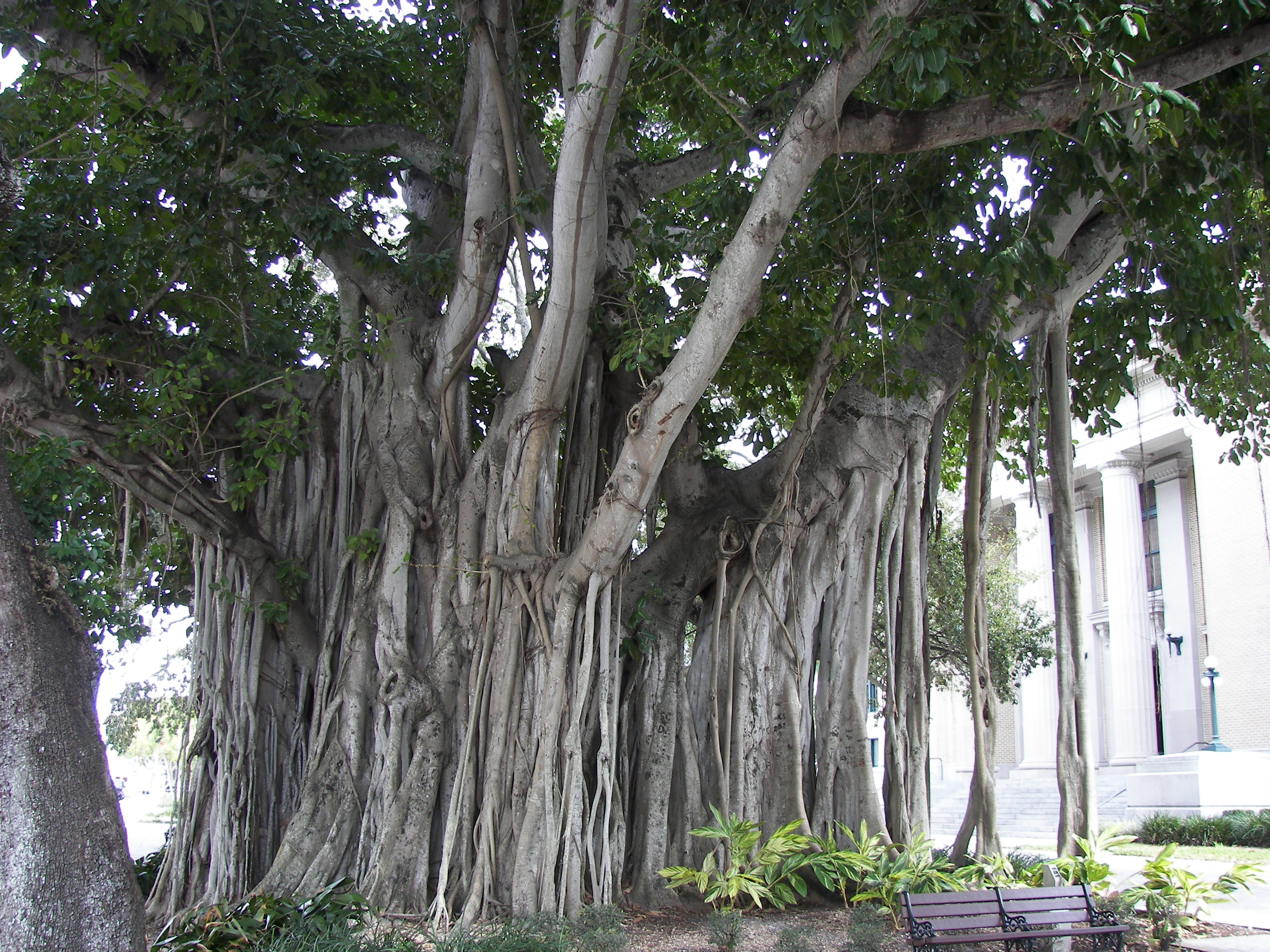 Banyan tree in front of the Old Lee County Courthouse in Fort Myers, Florida.